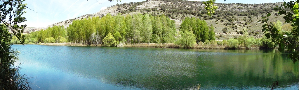 Somolinos Lagoon, in Guadalajara, Spain.